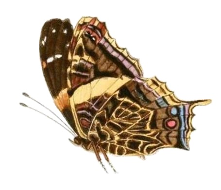 Boisduval, J.B.A. (1833): Mémoire sur les Lépidoptères de Madagascar, Bourbon et Maurice. Nouvelles Annales du Muséum d’Histoire Naturelle. Paris 2:149-270. Plate 8 figure 3 Vanessa hippomene madegassorum, female underside